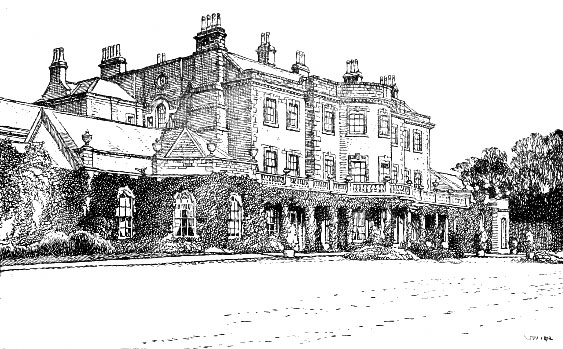 Wykeham Abbey, Wykeham, North Yorkshire, from A History of the County of York North Riding: Volume 2. Originally published by Victoria County History, London, 1923.